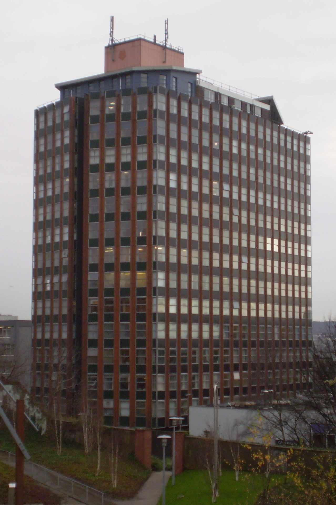 The Livingstone Tower on the John Anderson campus, University of Strathclyde, Scotland.